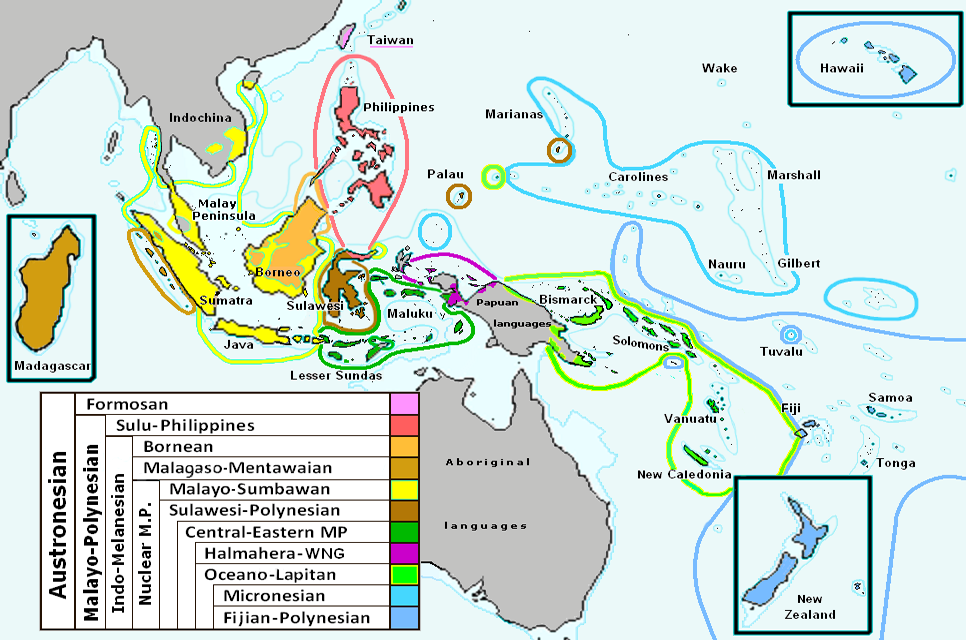 Localization of the Austronesian languages